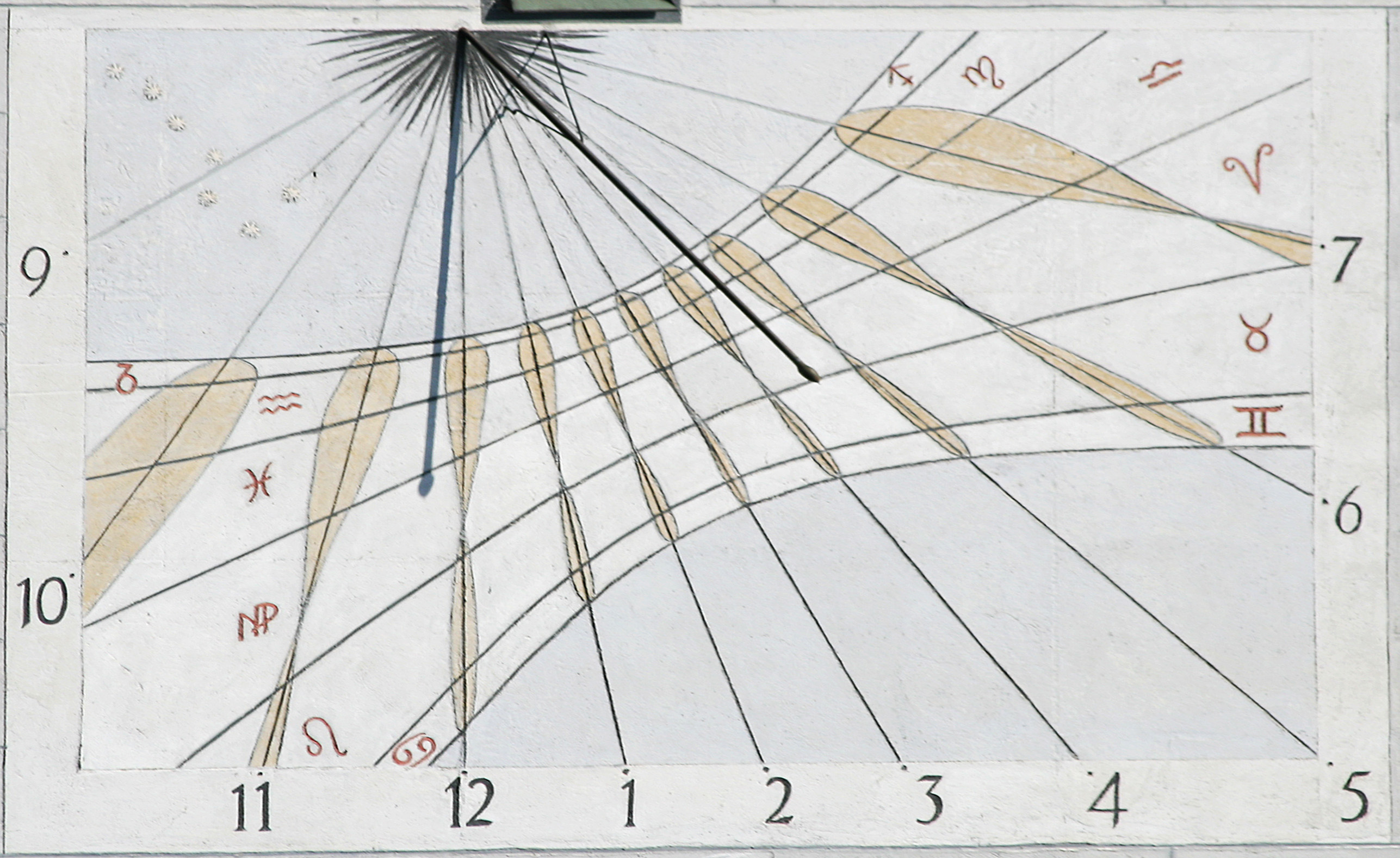 Vertical sundial at Altes Rathaus, Munich, Germany